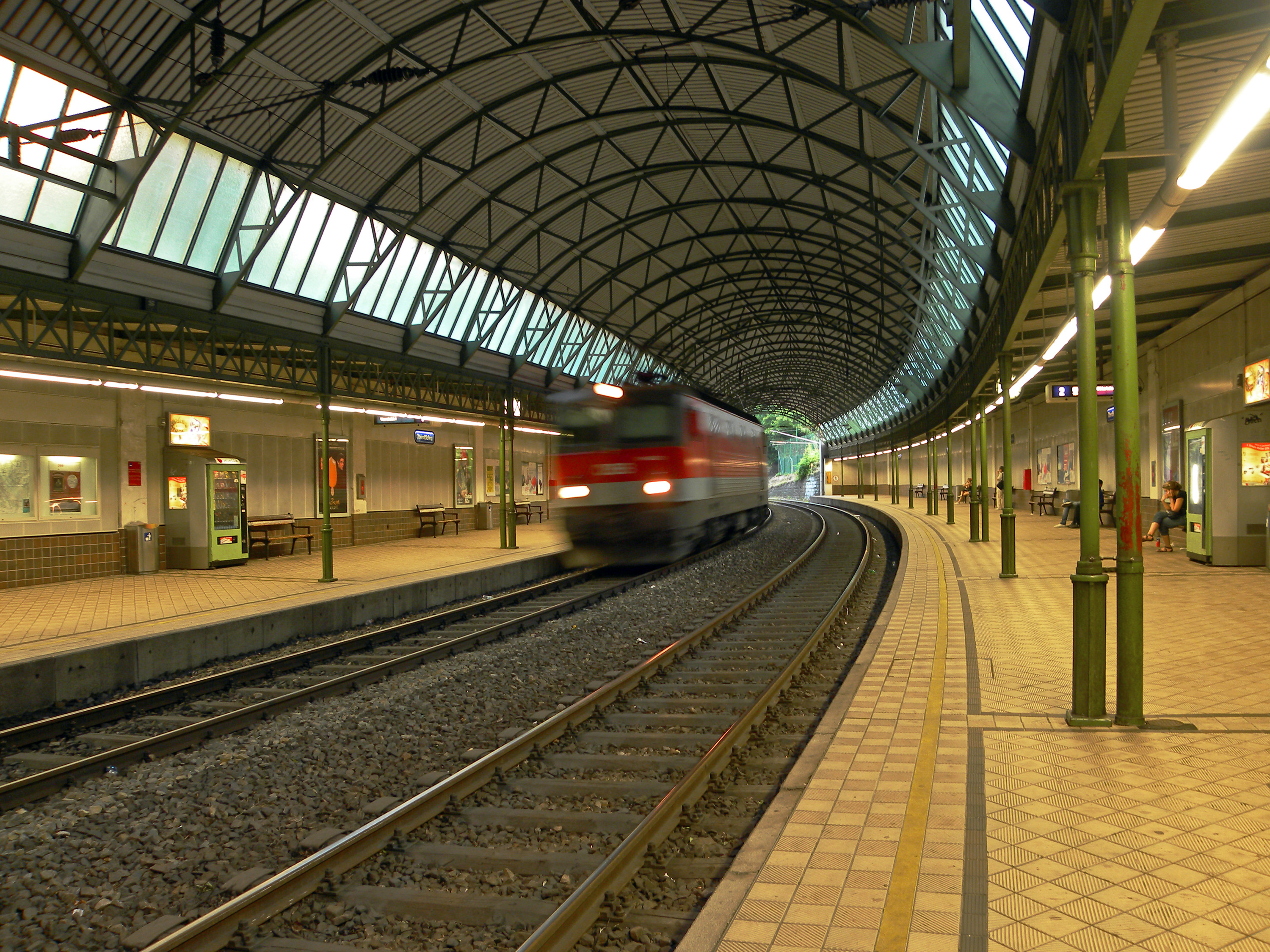 Railroad line through the outlying districts of Vienna, station in Oberdöbling, Vienna (Wien)